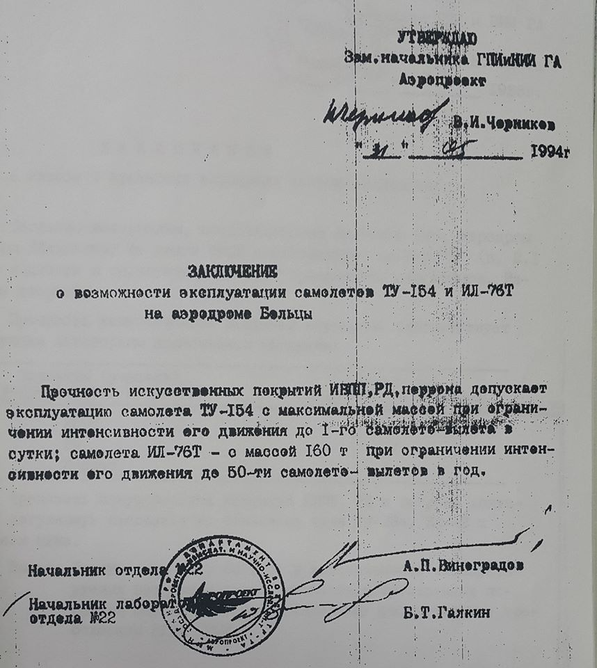 Certificate confirming operability of airplanes TU-154 and IL76-T on runway of Balti Leadoveni Airport